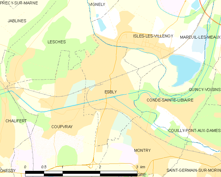 Map of French municipality Esbly